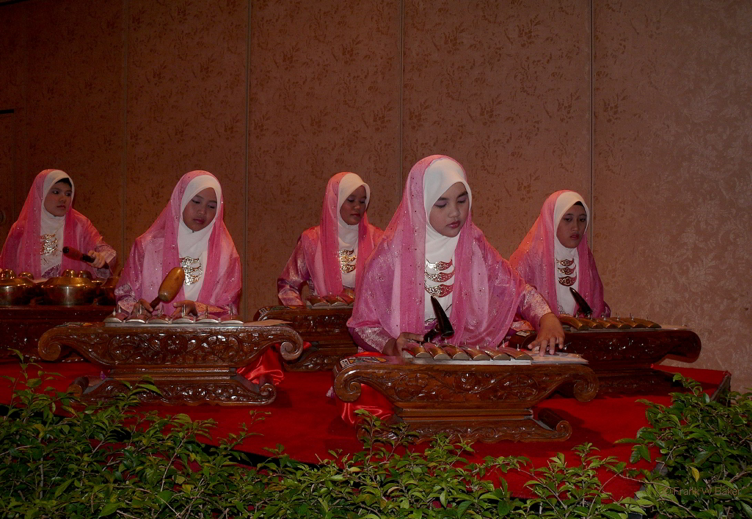 I took this photo of a Gamelan musical group at the Equitoral Hotel in Kuala Lumpur, Malaysia, on July 29, 2008. The Bonang player is to the far left. FWBaker fgfg